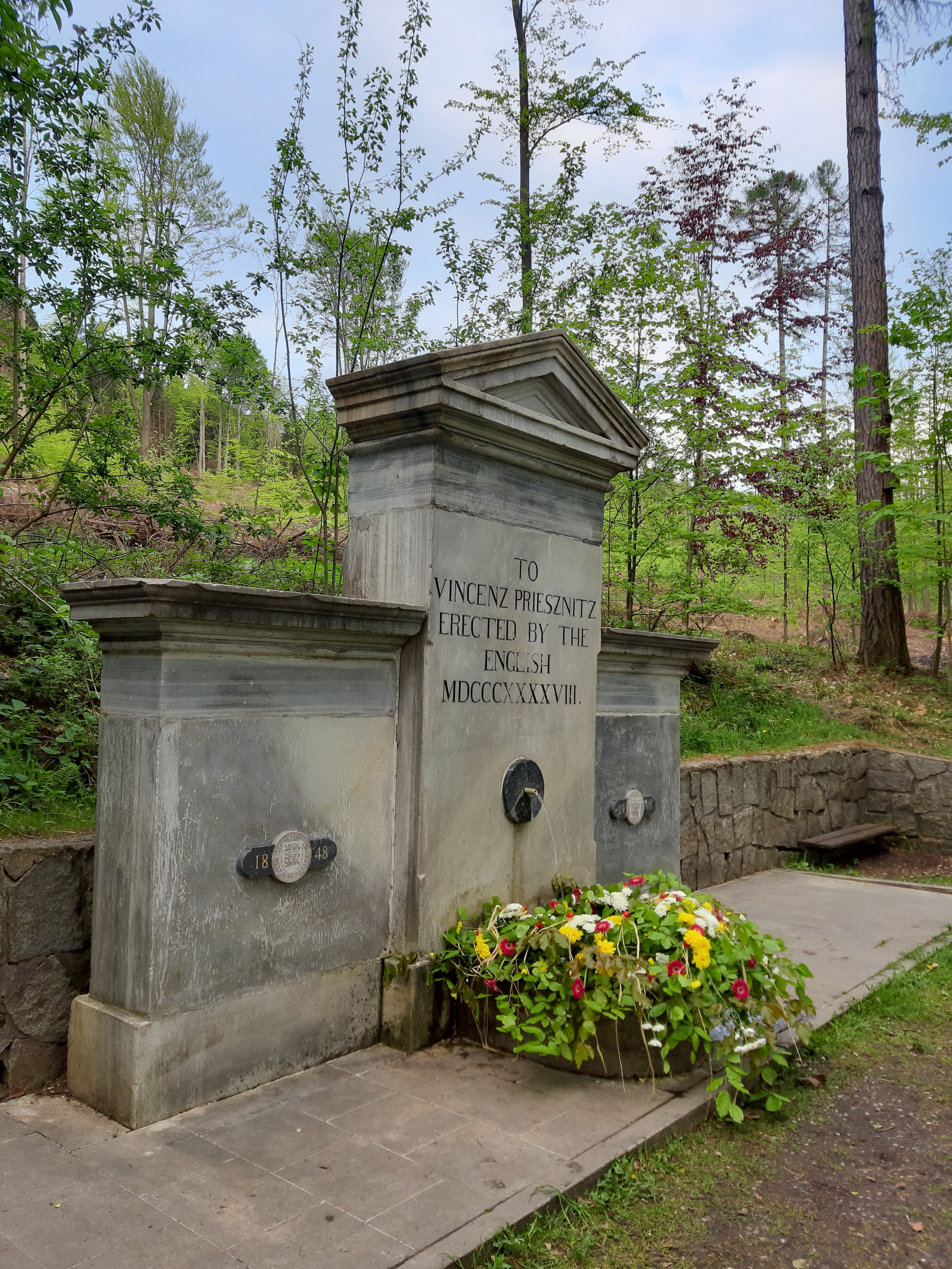 English well in Jesenik